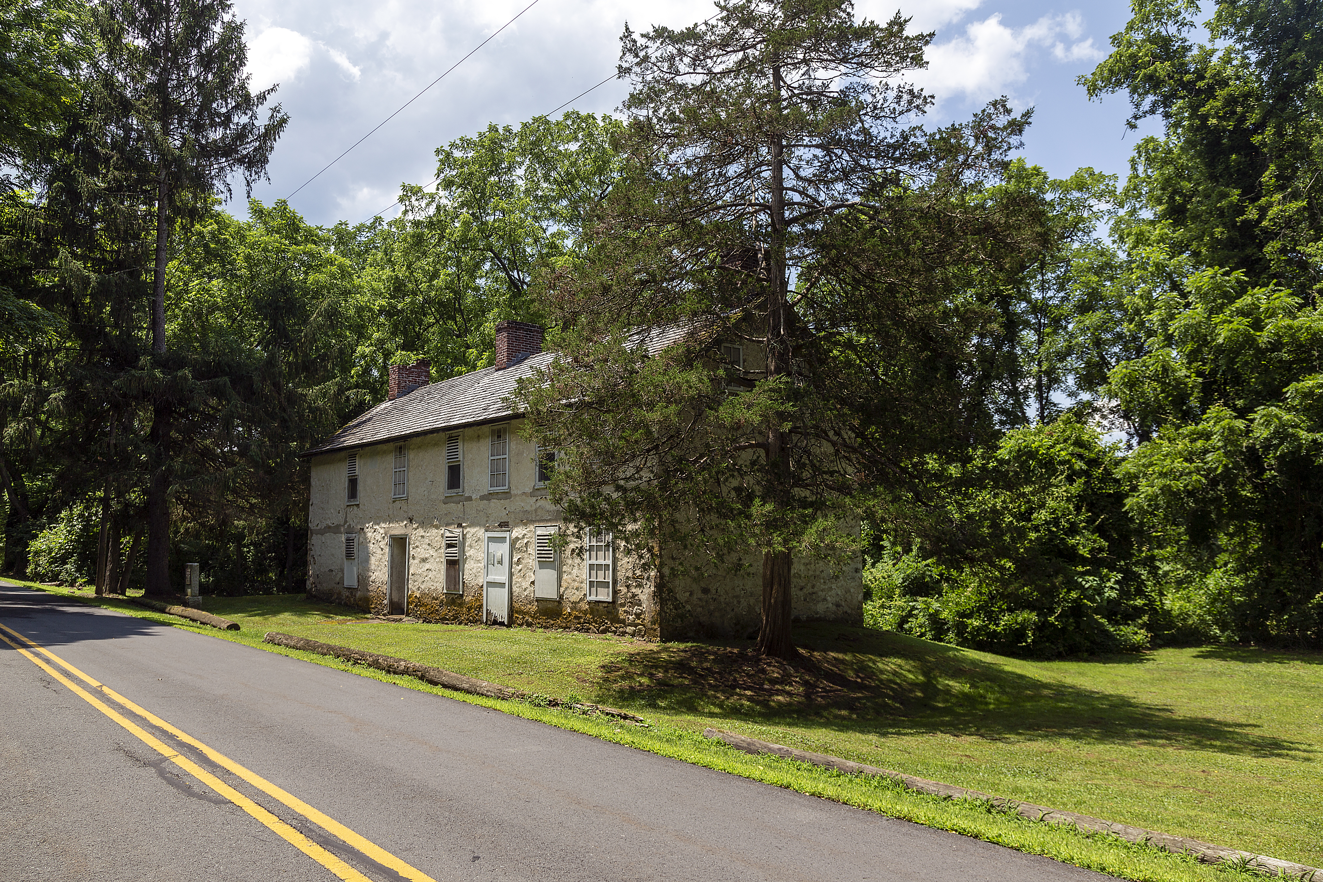 Depue House on the northern end of the Old Mine Road in Delaware Water Gap National Recreation Area, New Jersey, USA